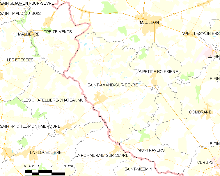 Map of French municipality Saint-Amand-sur-Sèvre